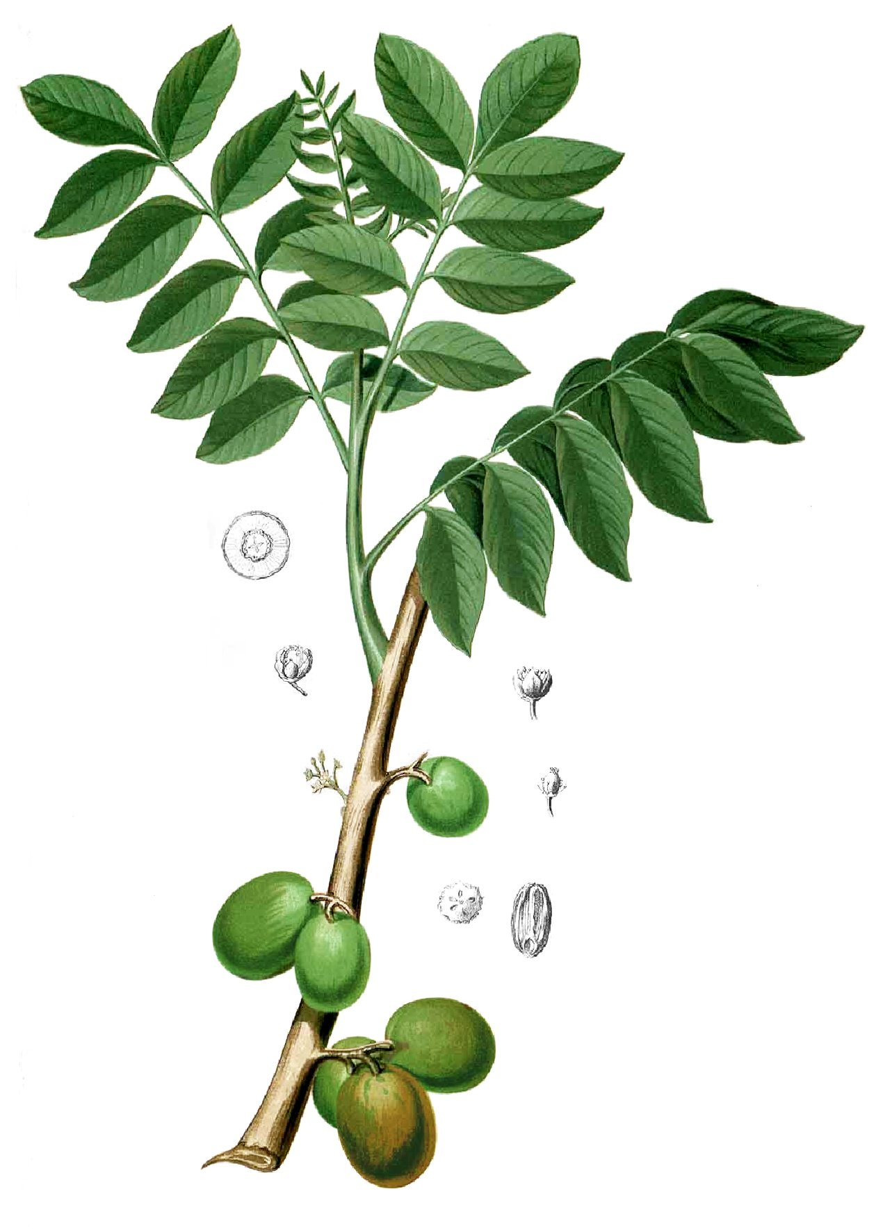 Plate from book